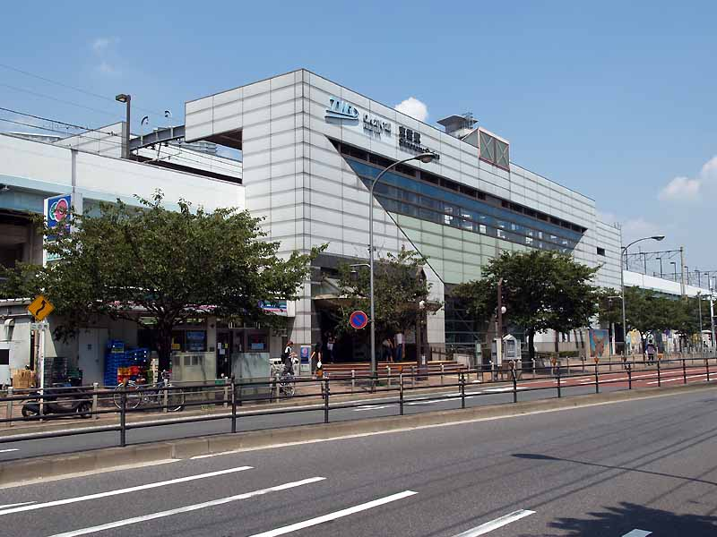 East exit of Shinonome Station